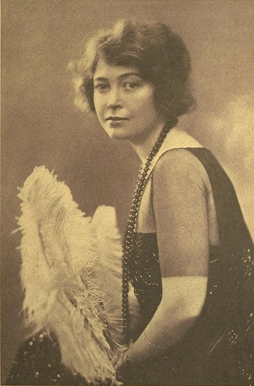 Margaret Lawrence, leading woman as the divorced wife in the delightful comedy hit "Wedding Bells". From her latest photograph by Lewis-Smith, Chicago.